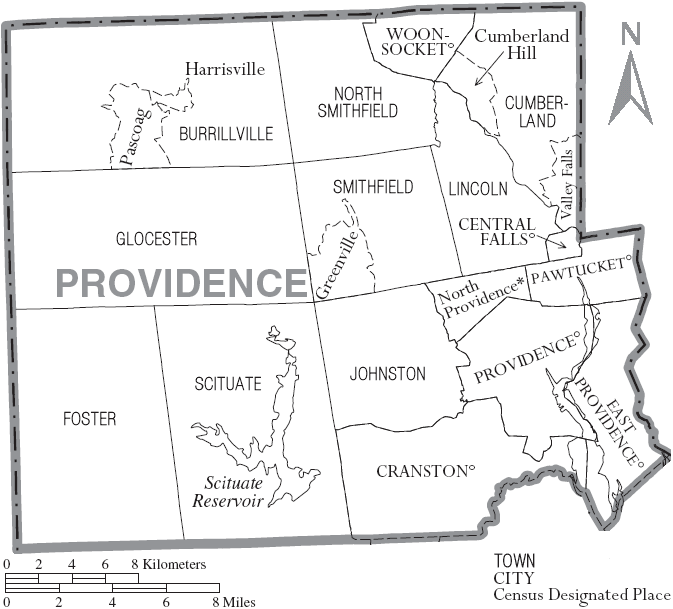 Map of Providence County, Rhode Island, United States with township and municipal boundaries